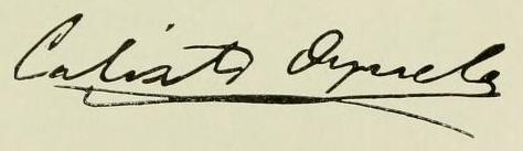 Signature of Calixto Oyuela (1857 - 1935), an Argentine writer and poet.